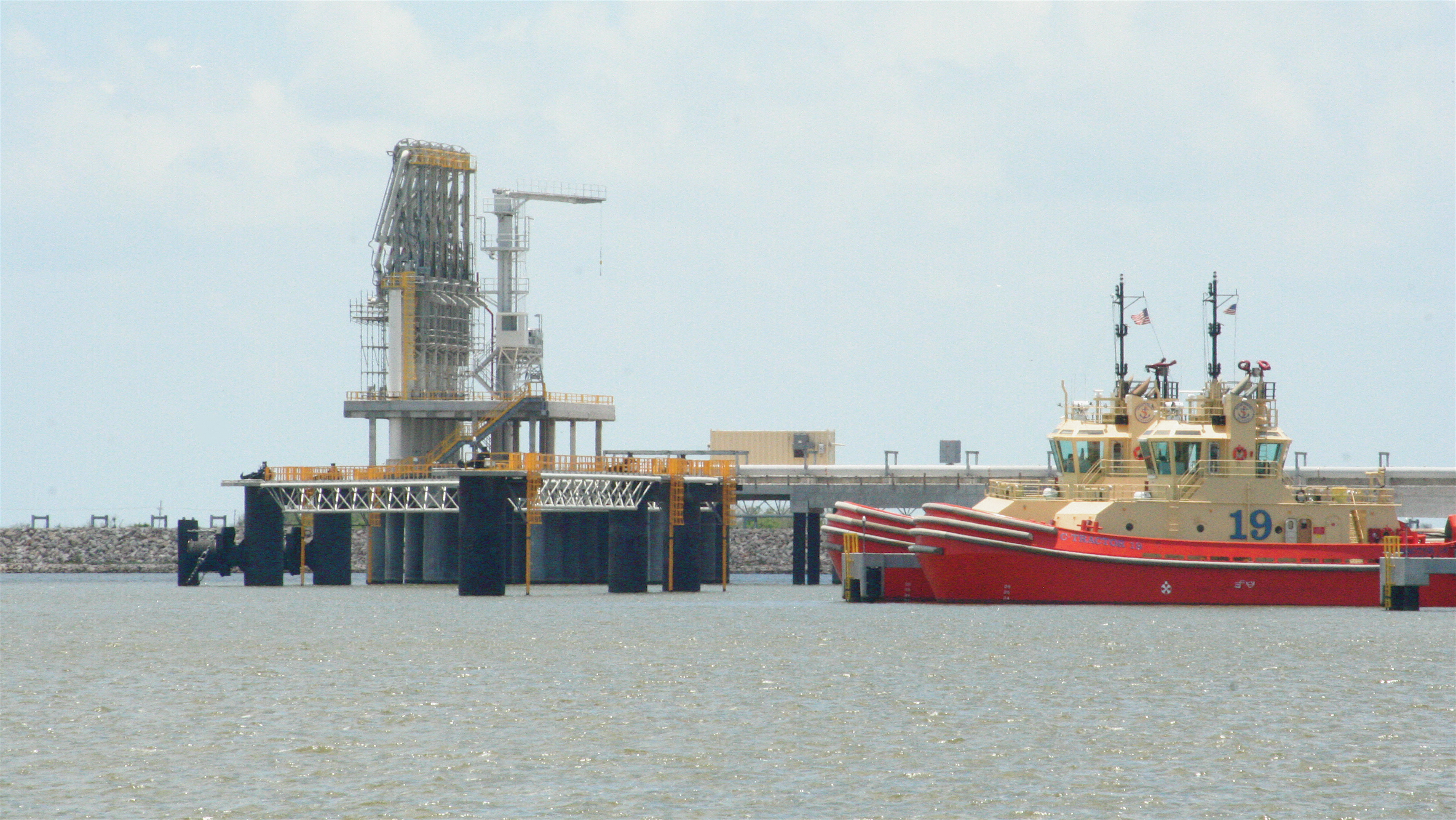 The following is the author's description of the photograph quoted directly from the photograph's Flickr page. "Chiksan arms and tugboats ready to assist inbound LNG tankers at Sabine Pass."